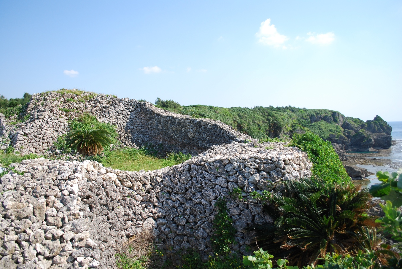 Historic sites of Gushikawa Castle 01 at Itoman city